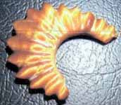 Jewlry worn by an unidentified murder victim found in San Joaquin County, California